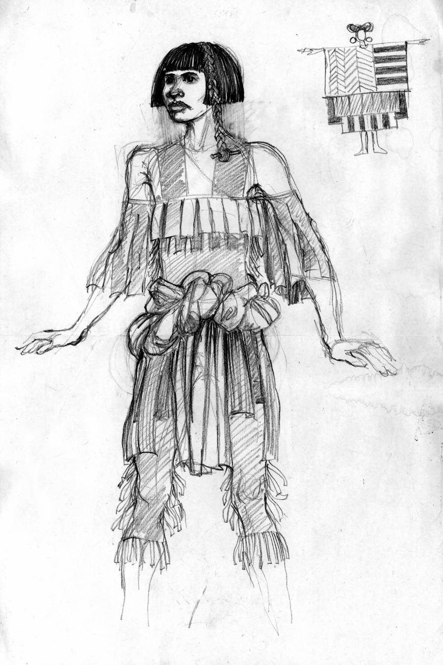 Drawing of white boy